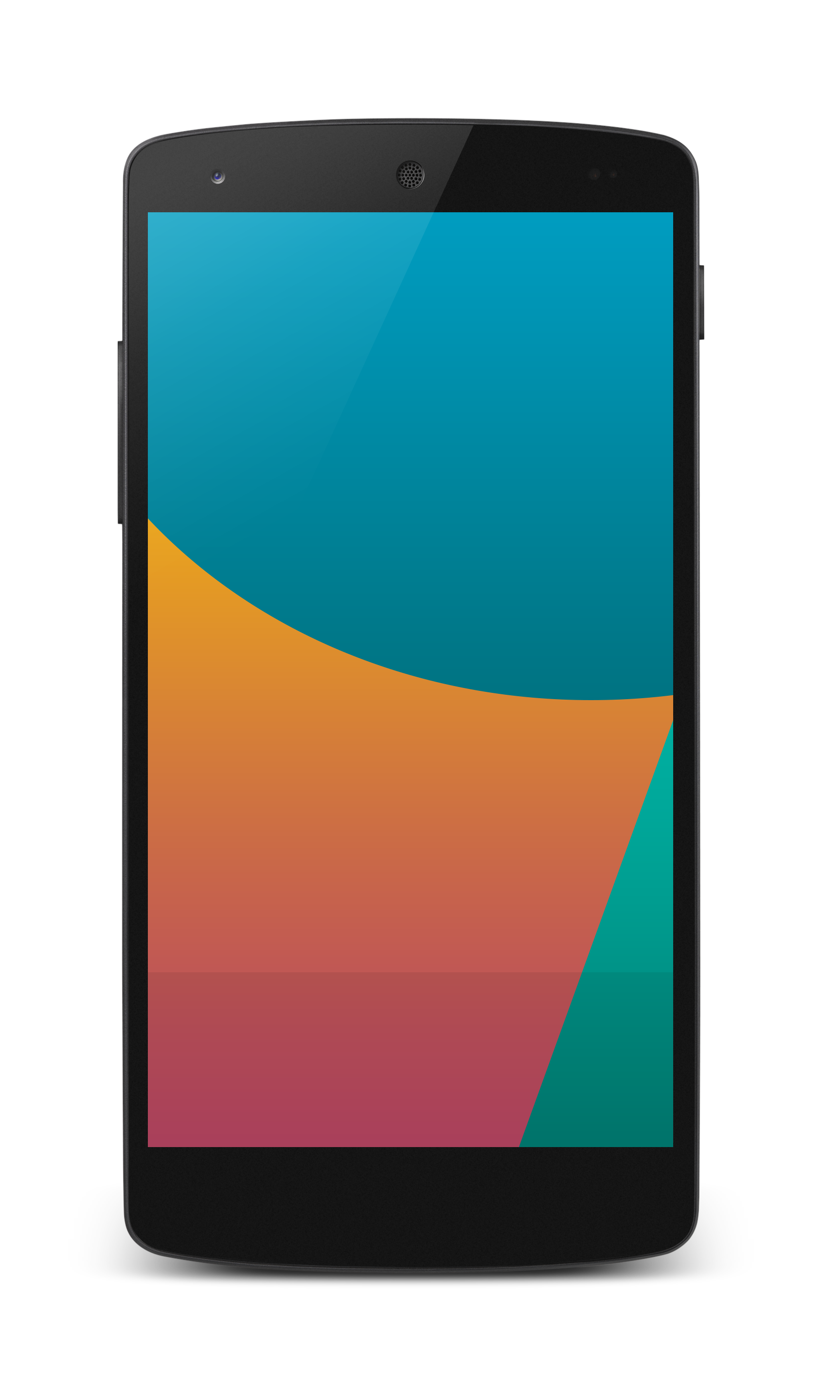 Photo of the Nexus 5, taken from which is released under CC 2.5 Attribution. Portions of this page are reproduced from work created and shared by the Android Open Source Project and used according to terms described in the Creative Commons 2.5 Attribution License.